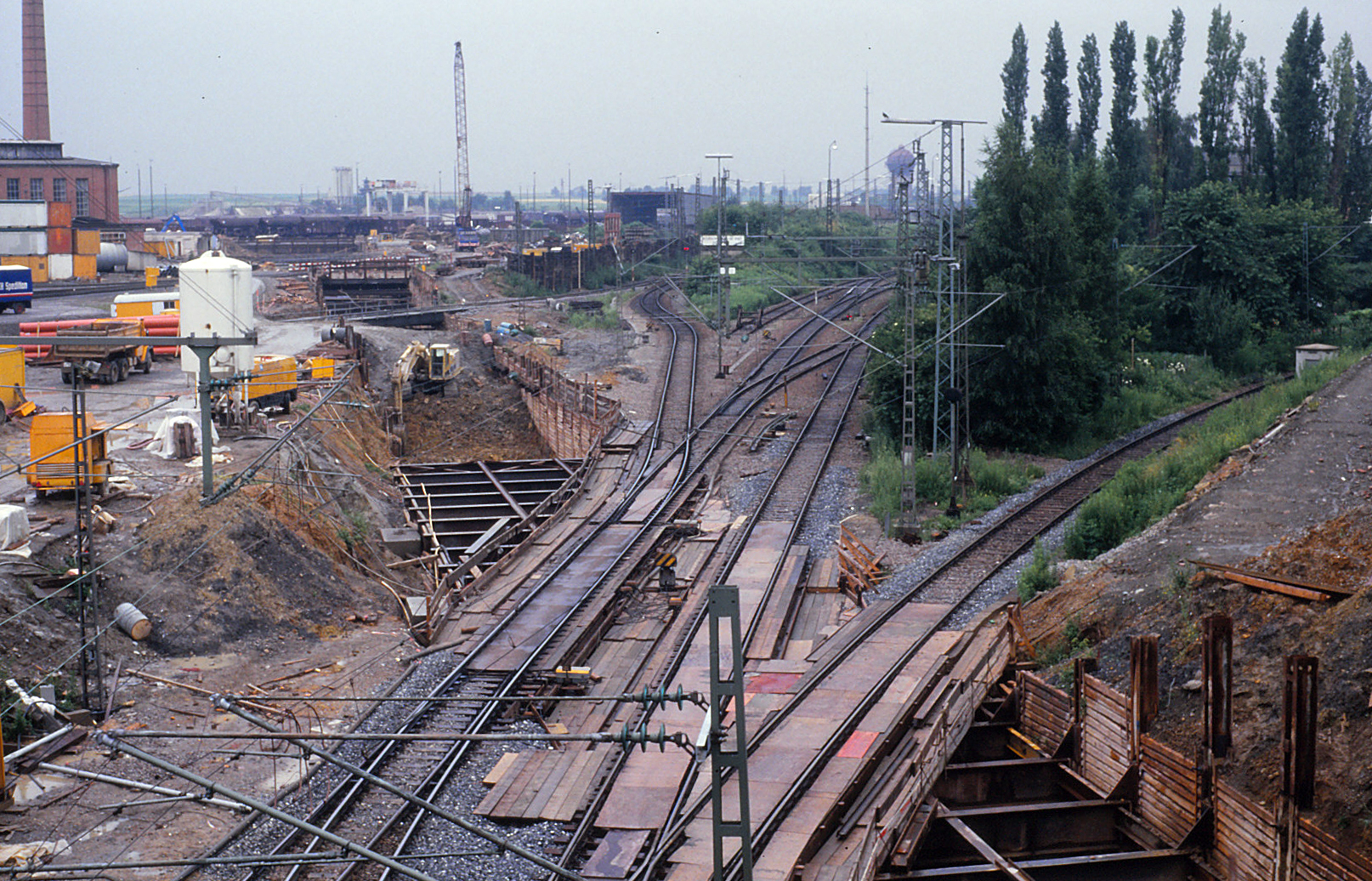 Construction works at Langes Feld Tunnel in 1987